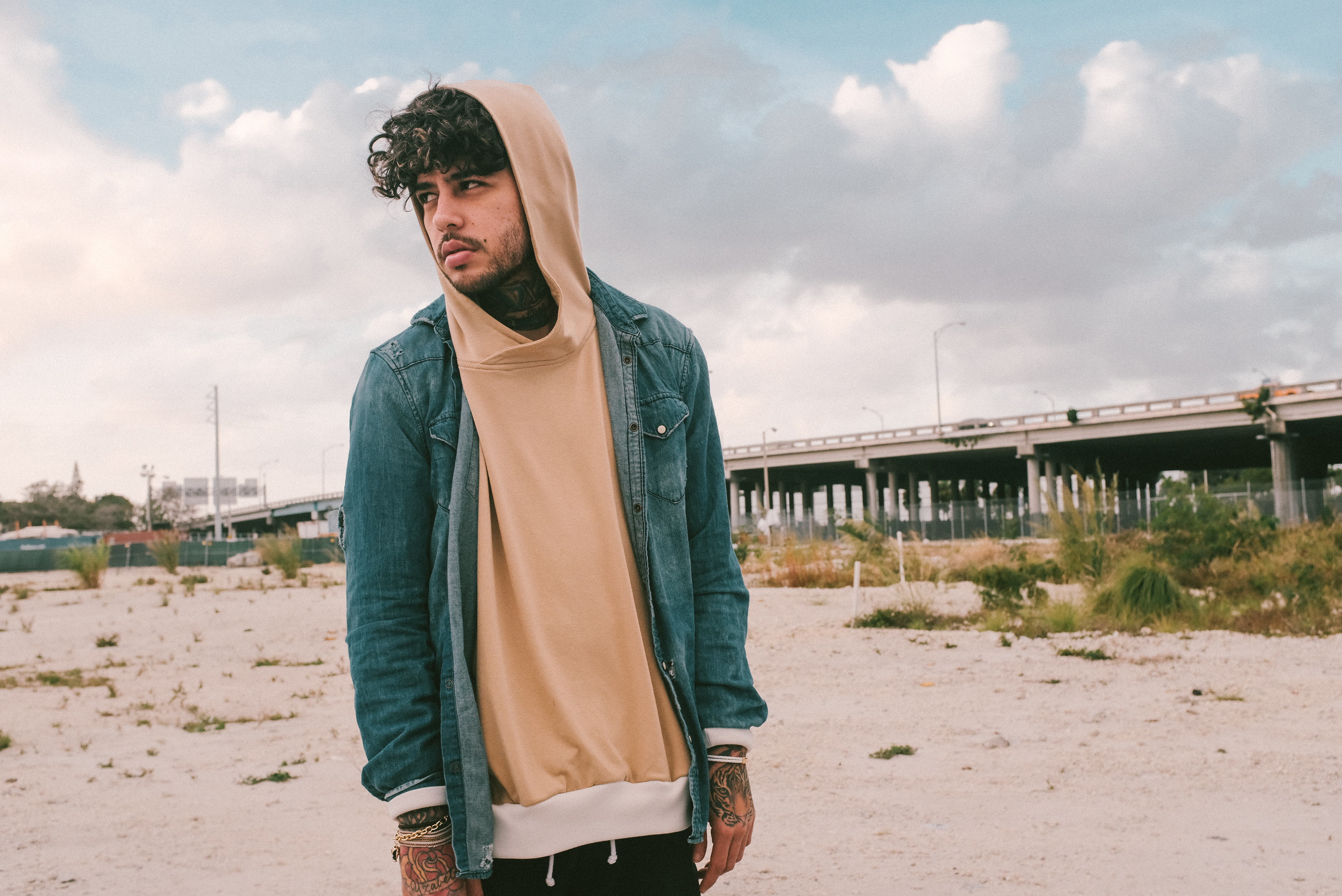 Dalex Desert City